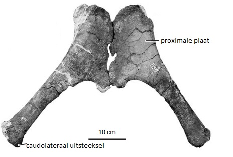 Sternals in ventral view of Olorotitan arharensis Godefroit, Bolotsky & Alifanov, 2003 (holotype AEHM 2-845). Upper Cretaceous of Kundur, Russia